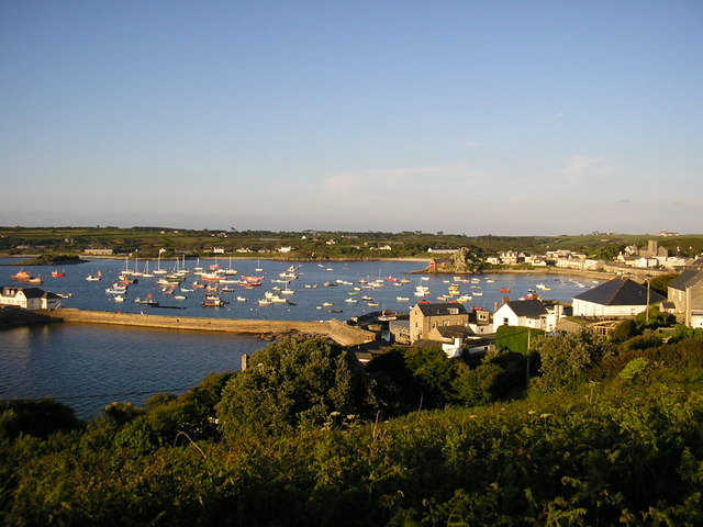 Hugh Town Harbour, St Mary's View across the harbour at Hugh Town.